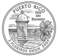 The Puerto Rico quarter, 2009.